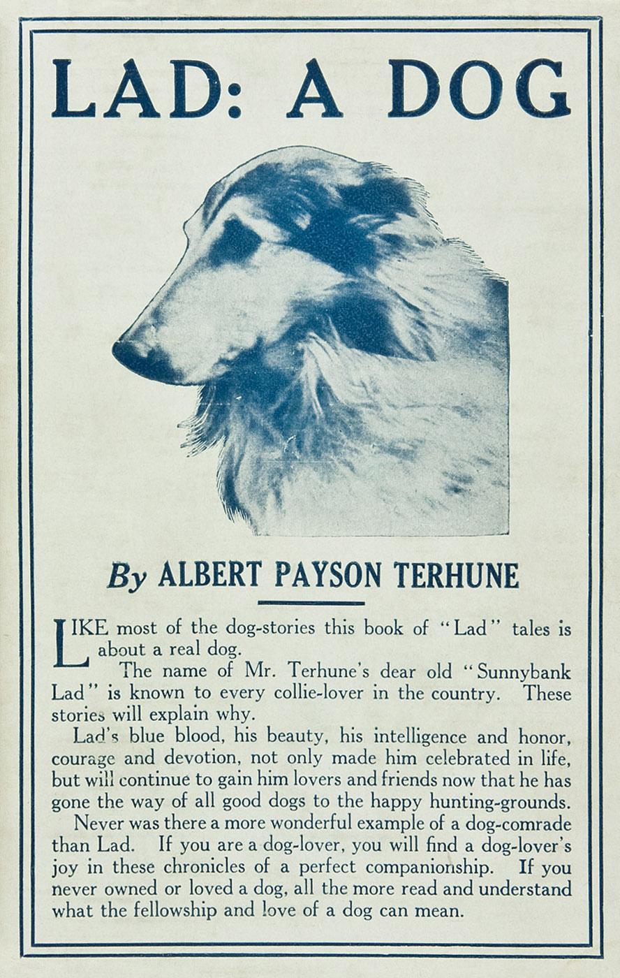 Original jacket (both front and rear faces are the same) for Lad: A Dog, first edition, 1919